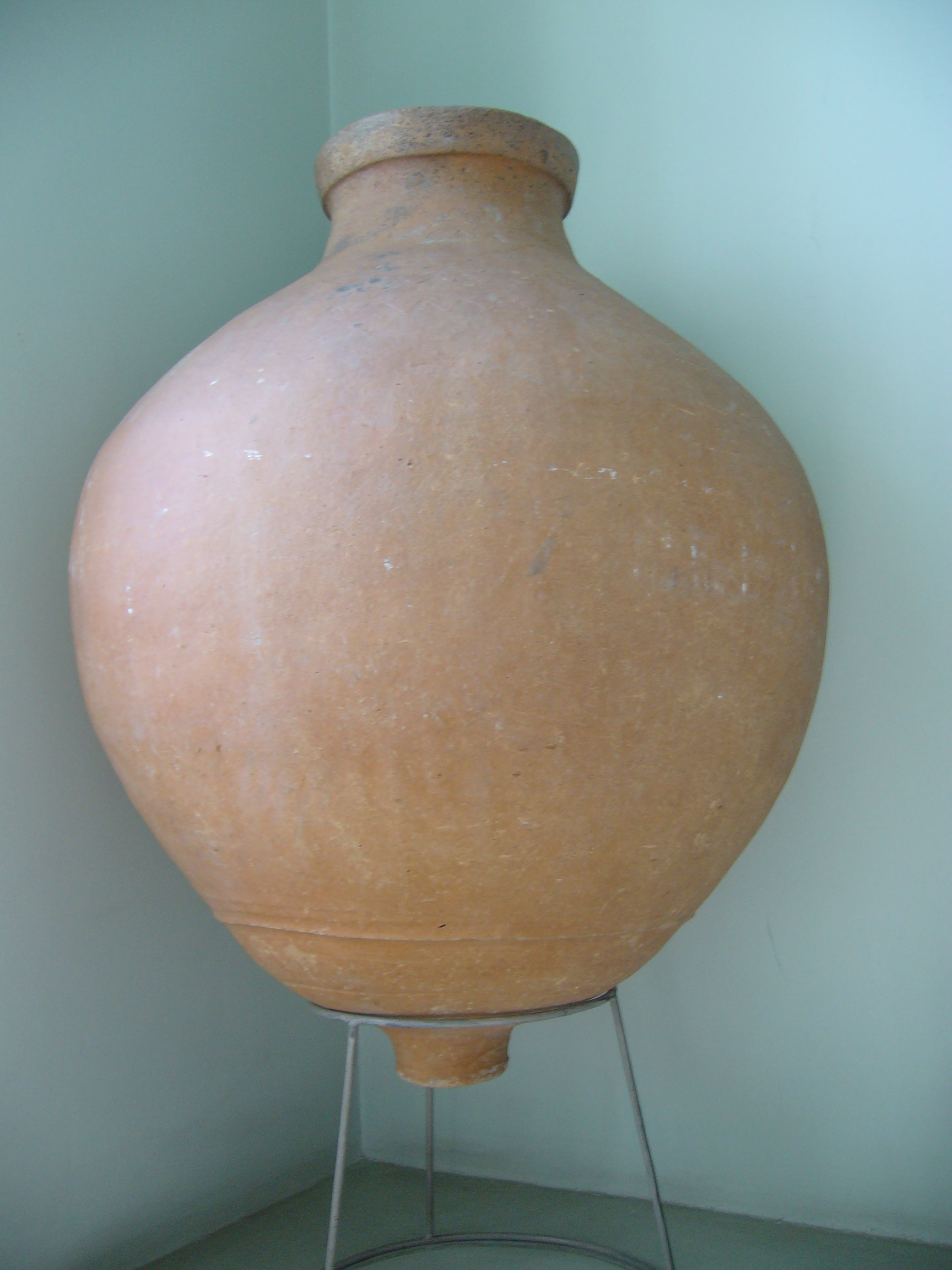 Pythos from Hermitage, St. Petersburg, found in Hersones, Crimea.